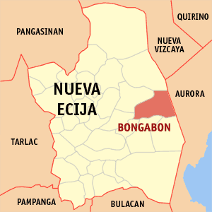 Map of Nueva Ecija showing the location of Bongabon